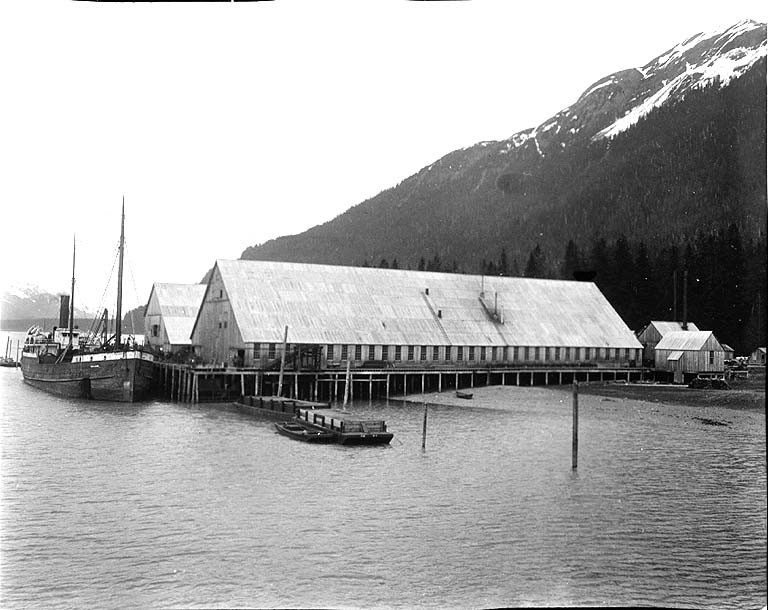 From John Cobb field notebook: Cannery of Pacific American Fisheries, Excursion Inlet, Alaska. June 11, 1911 Subjects (LCTGM): Canneries--Alaska--Excursion Inlet Subjects (LCSH): Pacific American Fisheries; Salmon canning industry--Alaska--Excursion Inlet